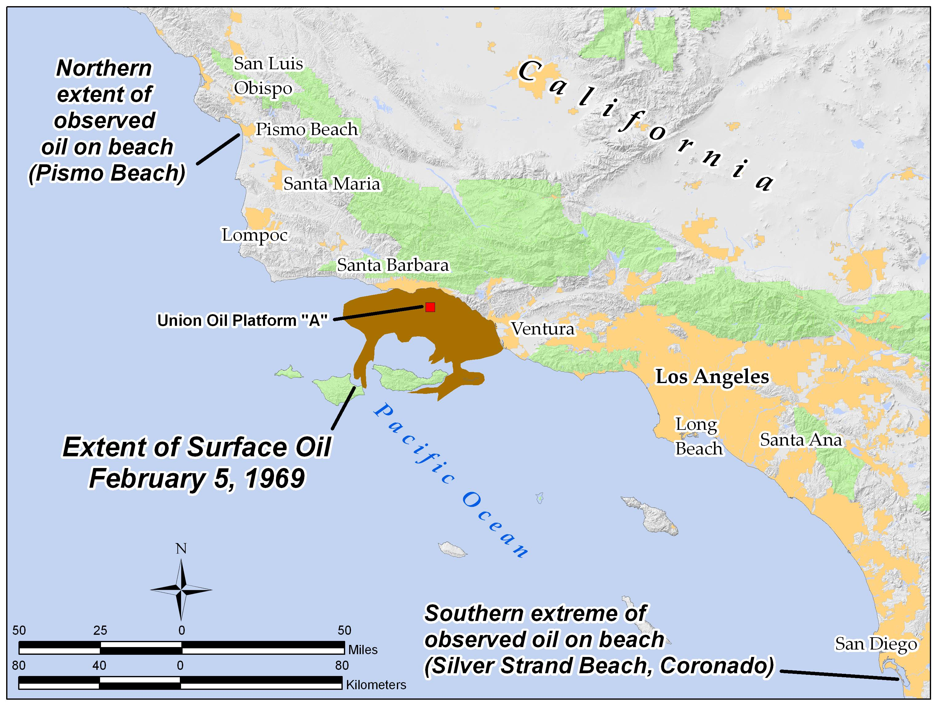 Extents of 1969 Santa Barbara, California oil spill. By self in ArcGIS 9.3; all layers in public domain; extent of continuous spill digitized from County of Santa Barbara ( northern and southern limits from Straughan (1973).